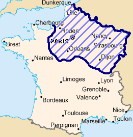 German occupation of France during the Franco-Prussian war